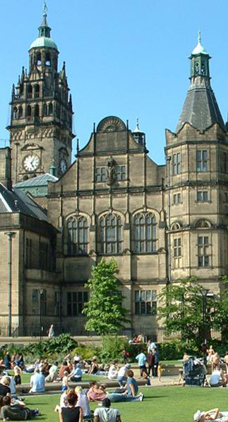 SheffieldTown Hall and the Peace Gardens